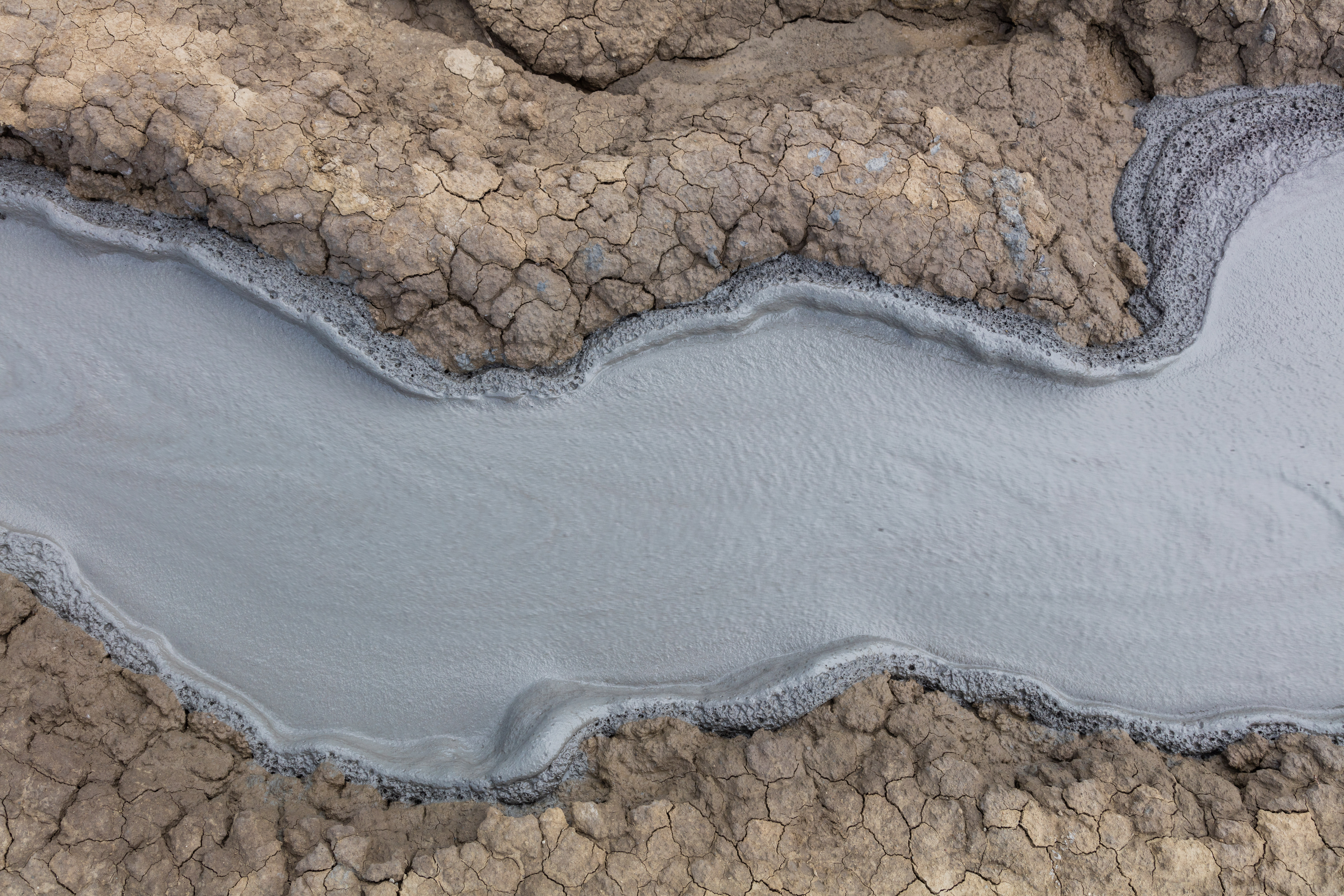 Mud flow out of a Berca Mud volcano, a geological and botanical reservation located close to Berca, Buzău County, Romania. The phenomenon is caused due to gases that erupt from 3,000 metres (9,800 ft) deep towards the surface, through the underground layers of clay and water, they push up underground salty water and mud, so that they overflow through the mouths of the volcanoes, while the gas emerges as bubbles. The blur in the middle of the channel is due to a wave of mud that passed every approx. 20 seconds.